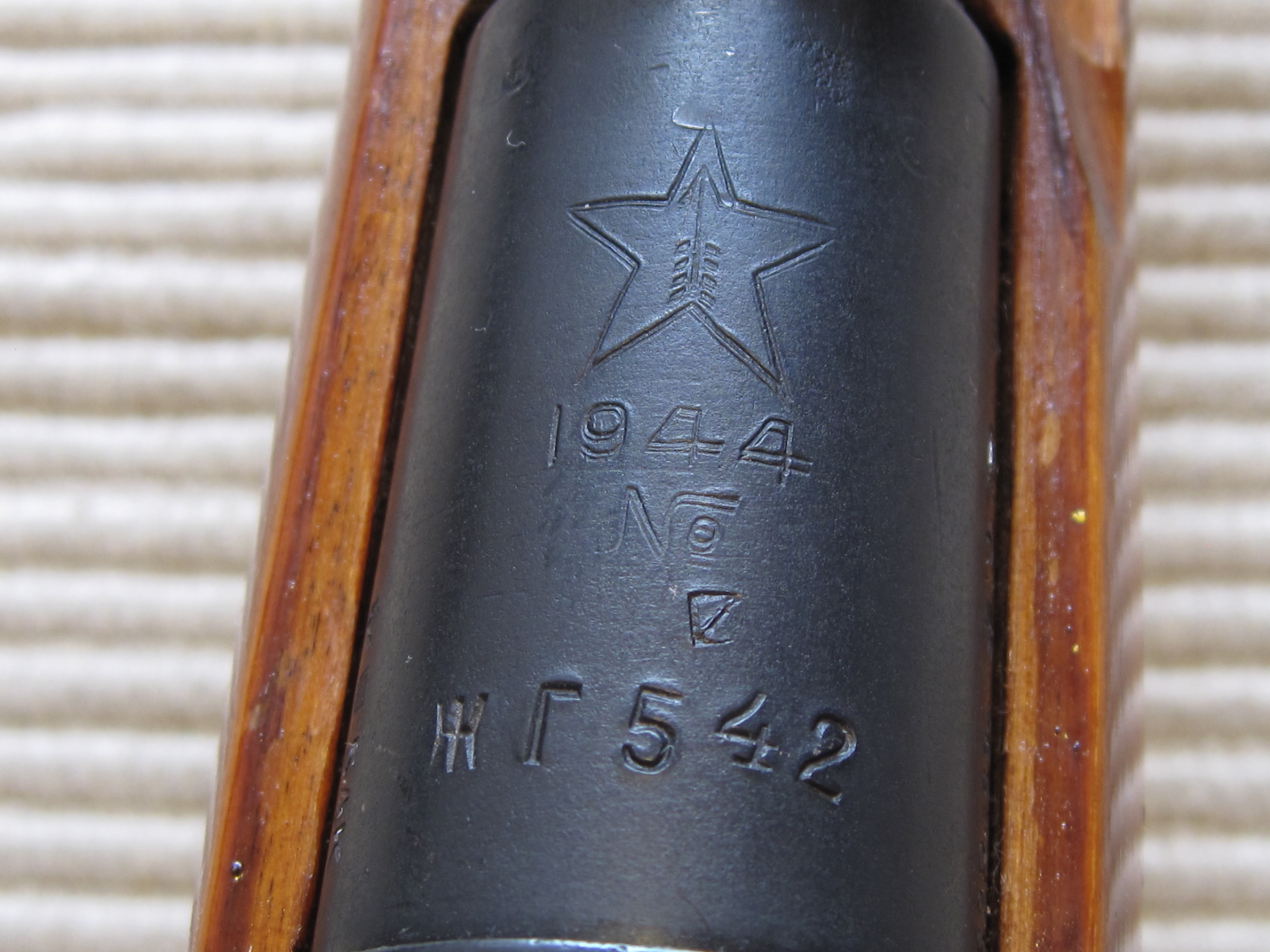 Mosin-Nagant-Tula-1944